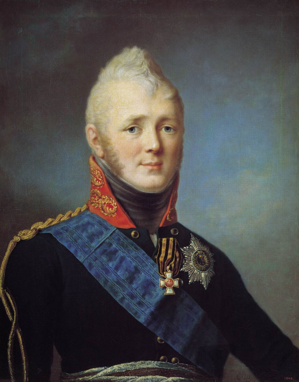 Alexander Pavlovich (Emperor Alexander I) of Russia